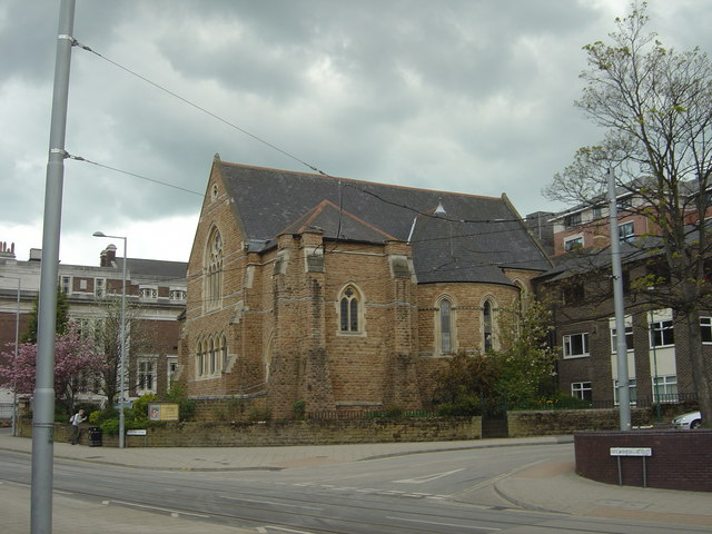 St. Andrew's with Castlegate URC, Goldsmith Street This was formerly simply St.Andrew's but gained its current name following the merger with the Castle Gate URC in 1975.